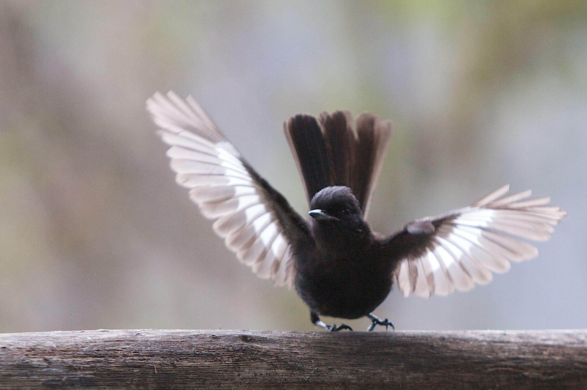 A White-winged Black-tyrant in Macchu Picchu, Peru. Photopgraphed in Machu Picchu Sanctuary Lodge hotel.